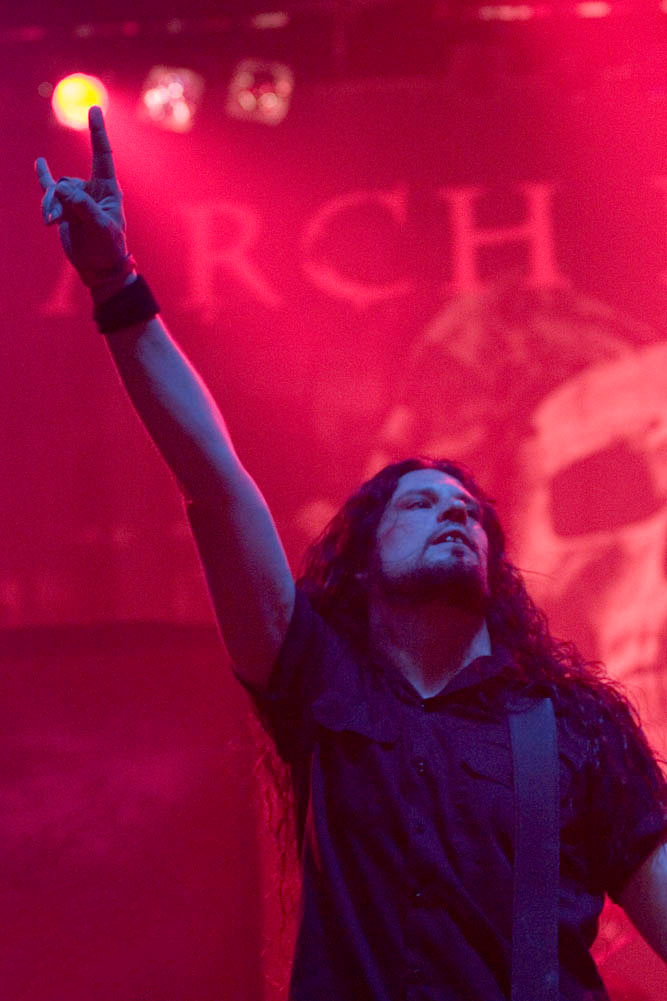 Sharlee D'Angelo from Arch Enemy, Via Funchal - São Paulo, Brasil